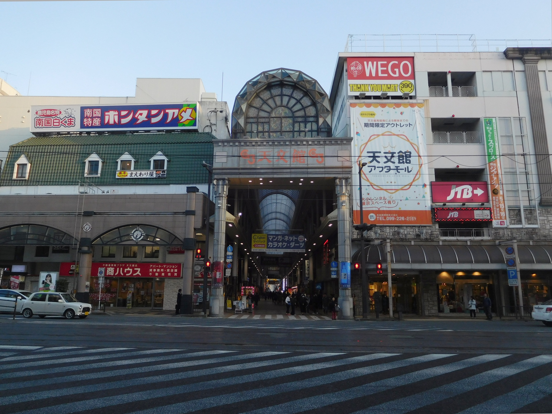 The Tenmonkan G3 Arcade in Central Kagoshima City, Japan)